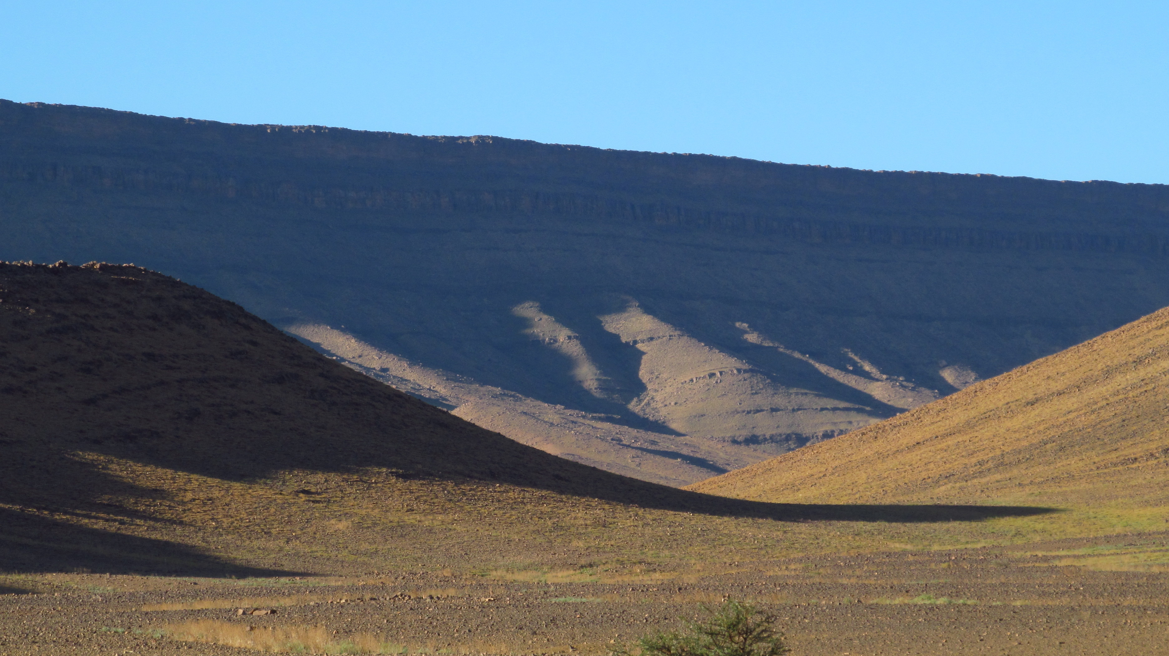 Landscape in the province of Tata, Southern Morocco